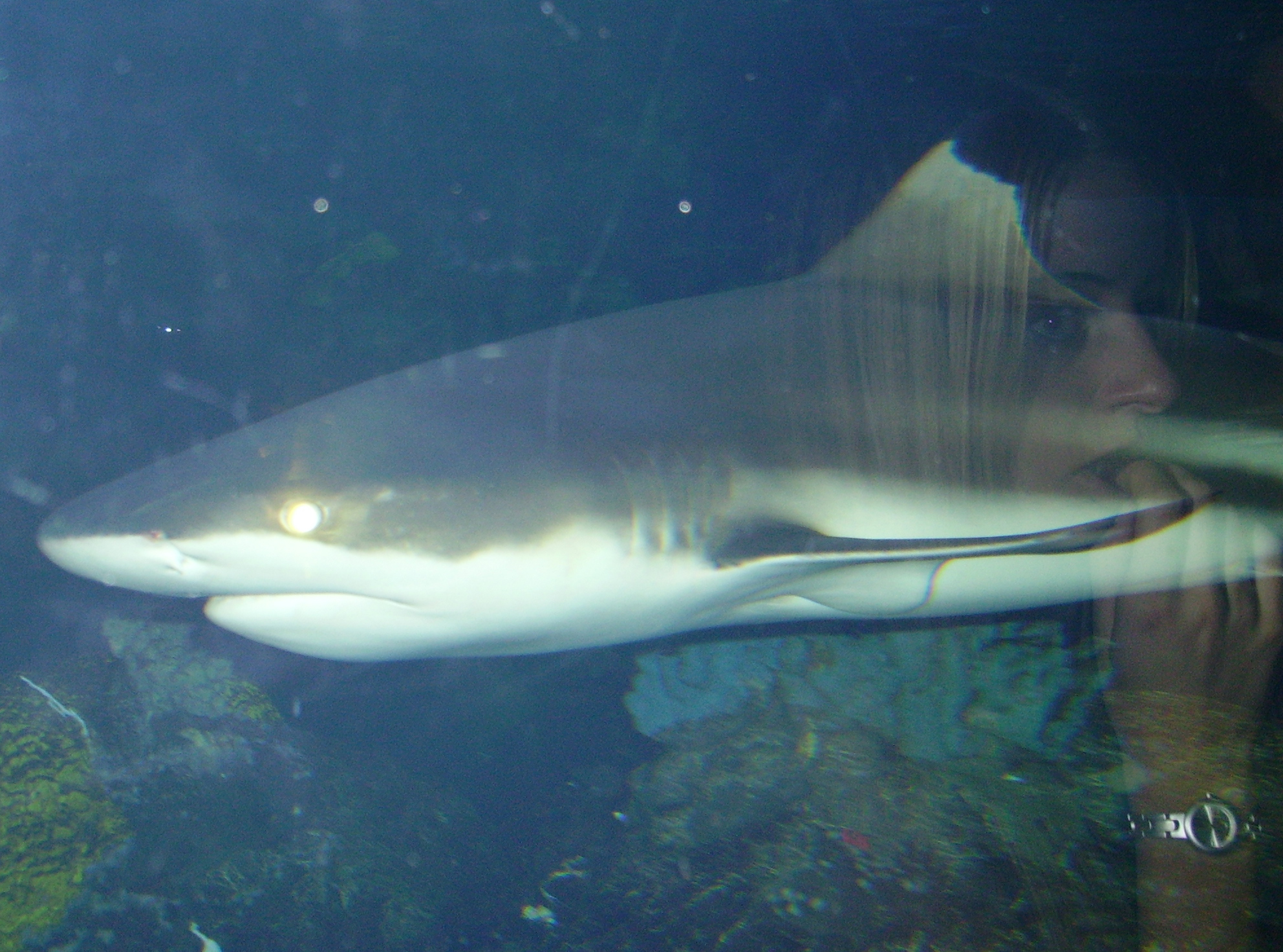 Anxiety